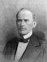 Gove Saulsbury of Delaware (1815-1881), artist: Ellen L. B. Wendell (attributed), 1898; Crayon portrait; 20" x 24". Courtesy of Delaware Department of State, Division of Historical and Cultural Affairs. Collection of the Delaware State Museums. Hall of Governors Portrait Gallery.